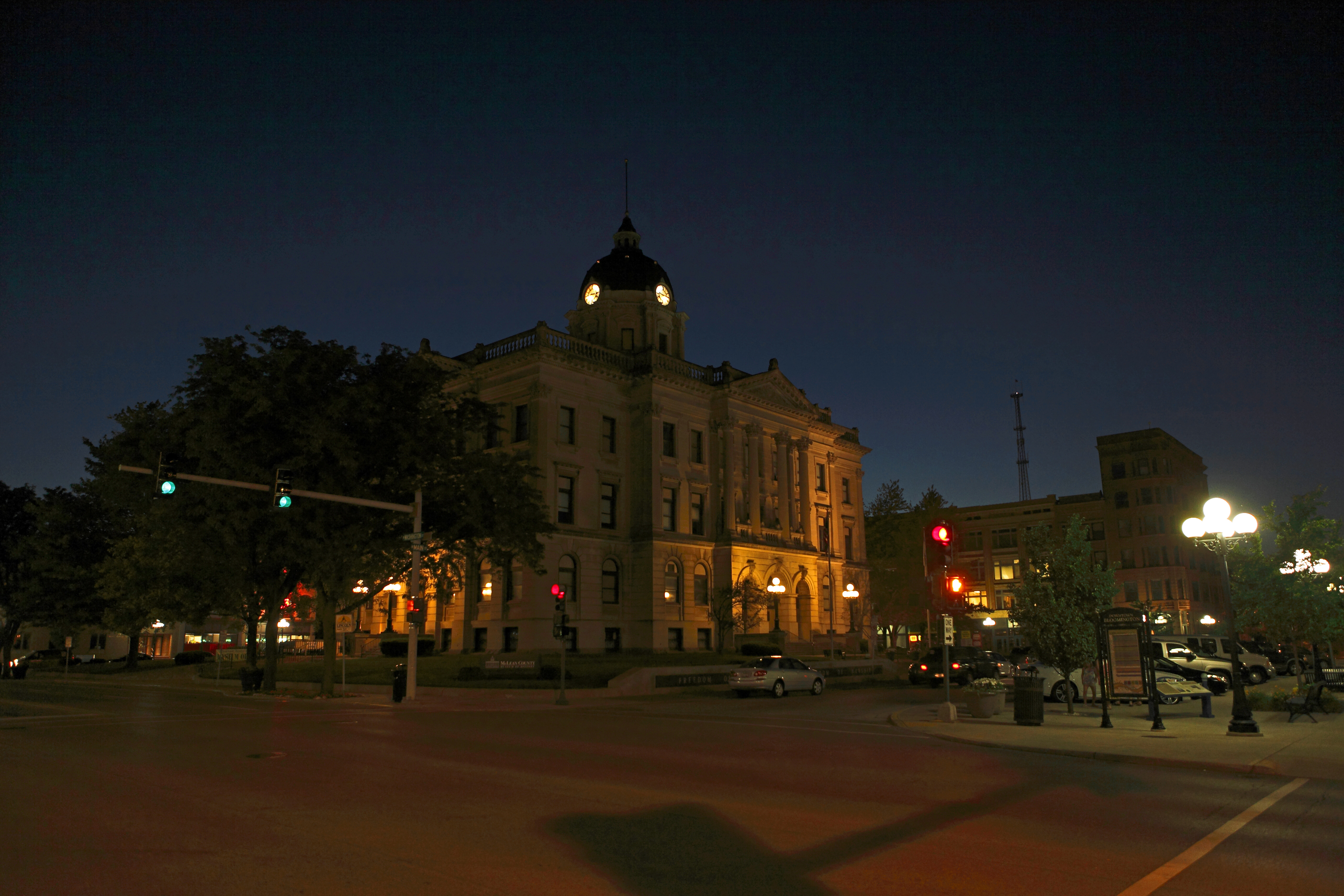 Downtown Courthouse at night